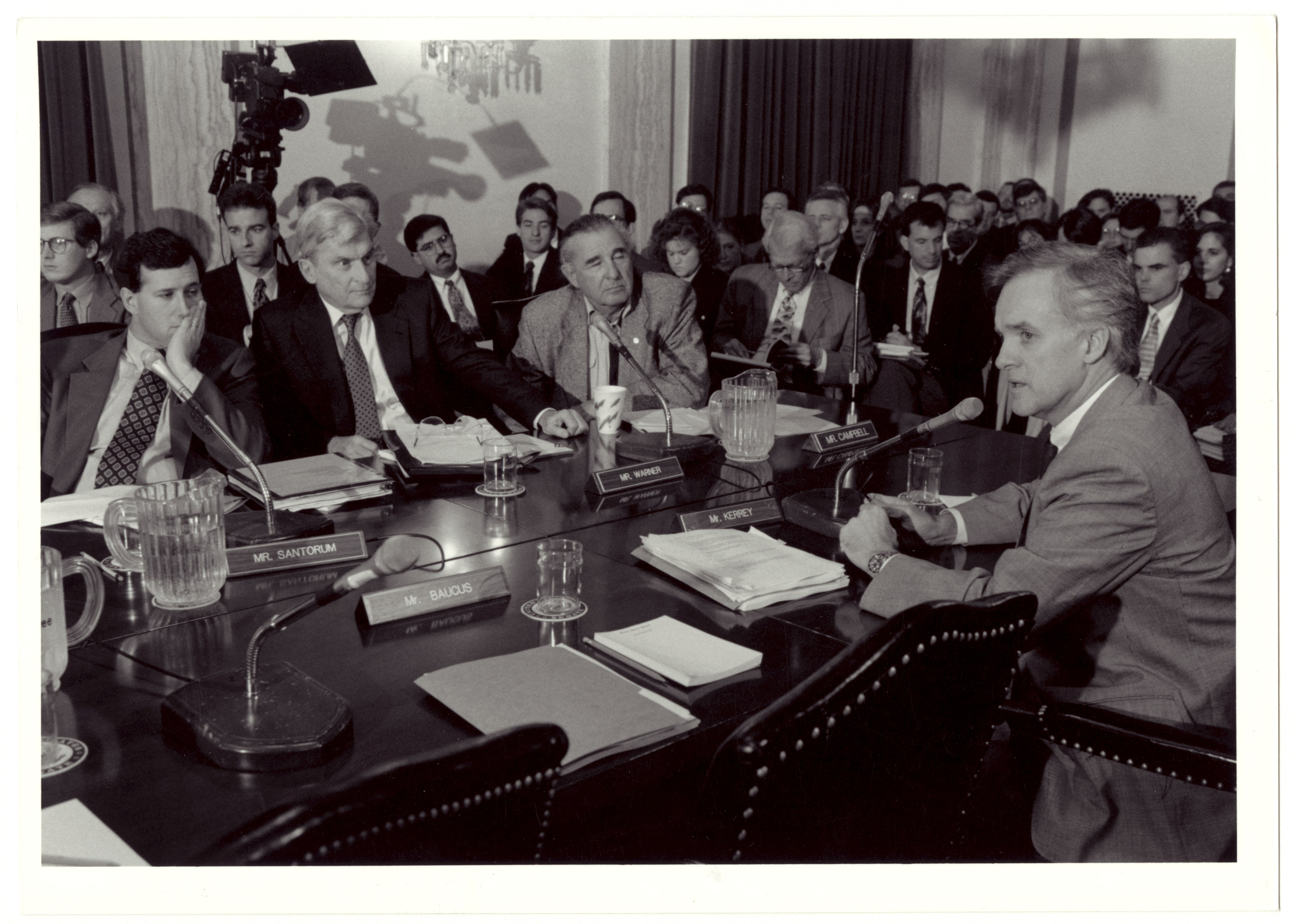 Photograph shows Senators Rick Santorum, John Warner, Ben Nighthorse Campbell and Bob Kerrey at a meeting of the Senate Committee on Agriculture, Nutrition and Forestry.